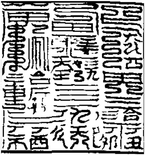 This is the seal of Jiutian Xuannü, as depicted in the work Lingbao Liuding Mifa (靈寶六丁秘法) (Liu 2016). The author and date of the work are unknown, but "internal evidence points to a compilation date in the Northern Song period (960-1127)" (Gesterkamp 2017).